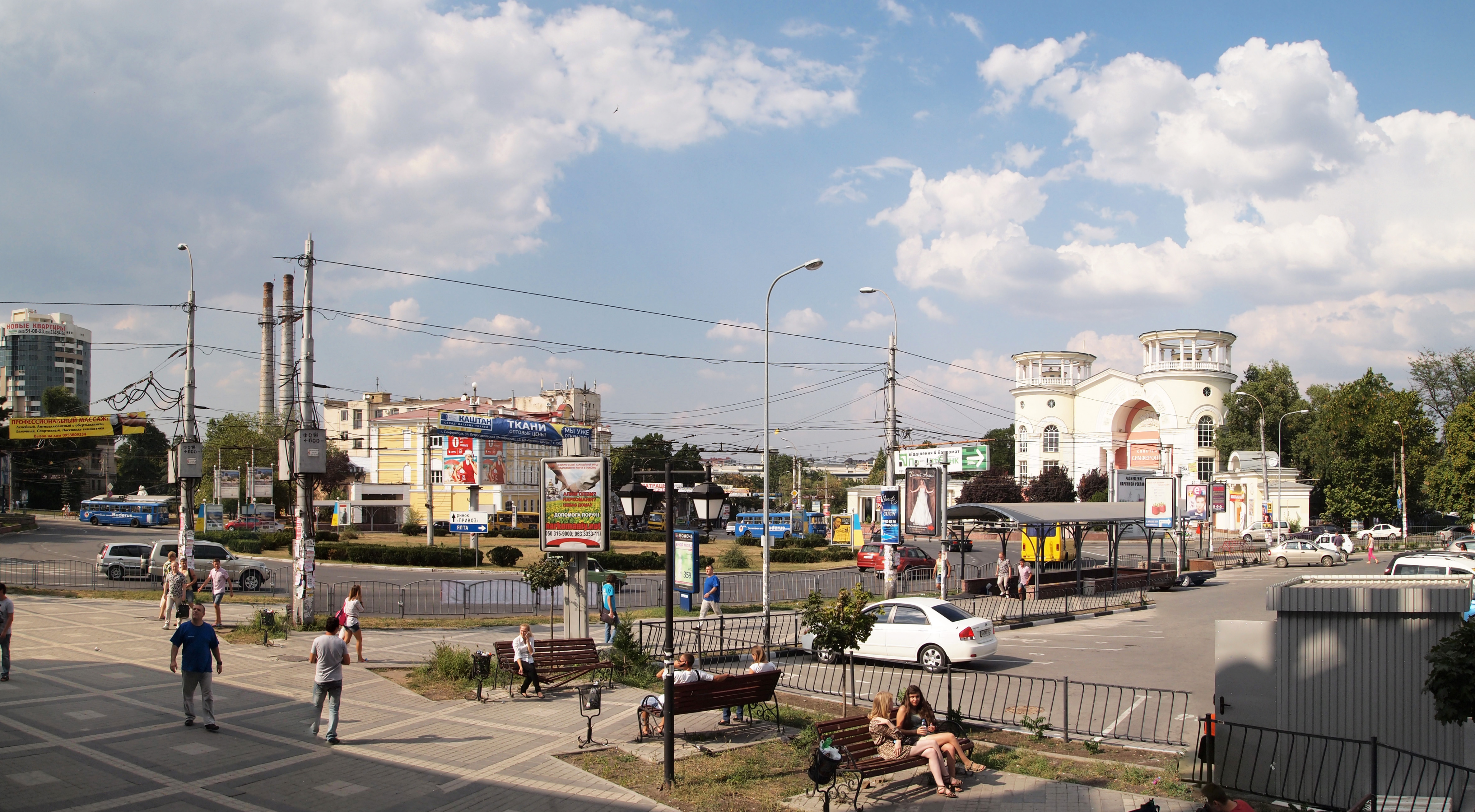 View of Simferopol. This photograph was taken with an Olympus E-PL1